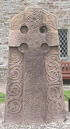 Aberlemno Cross. The duller light shows up the intricate patterns carved on the Pictish Cross.